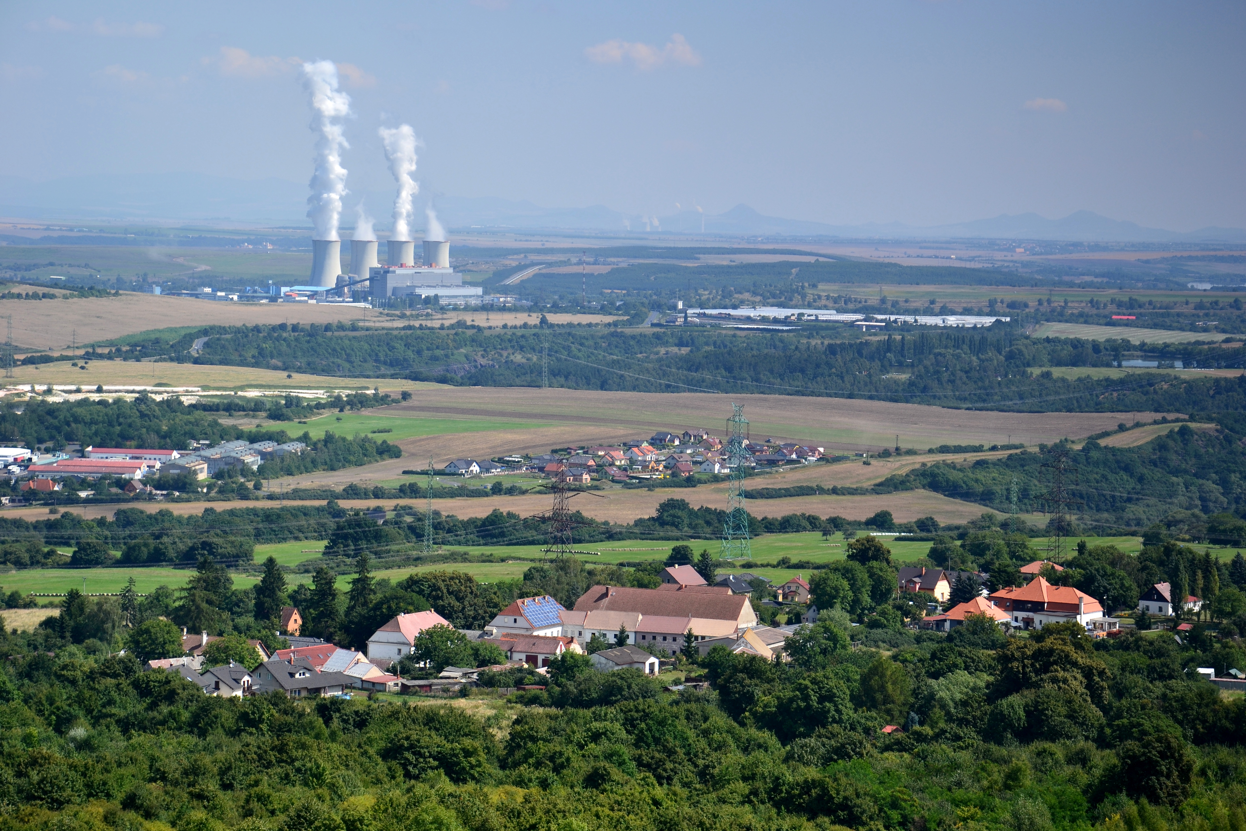 View from Úhošť over Kadaňská Jeseň with Röhrsdorf–Hradec power line (V445/V446) towards Tušimice Power Plant (background)